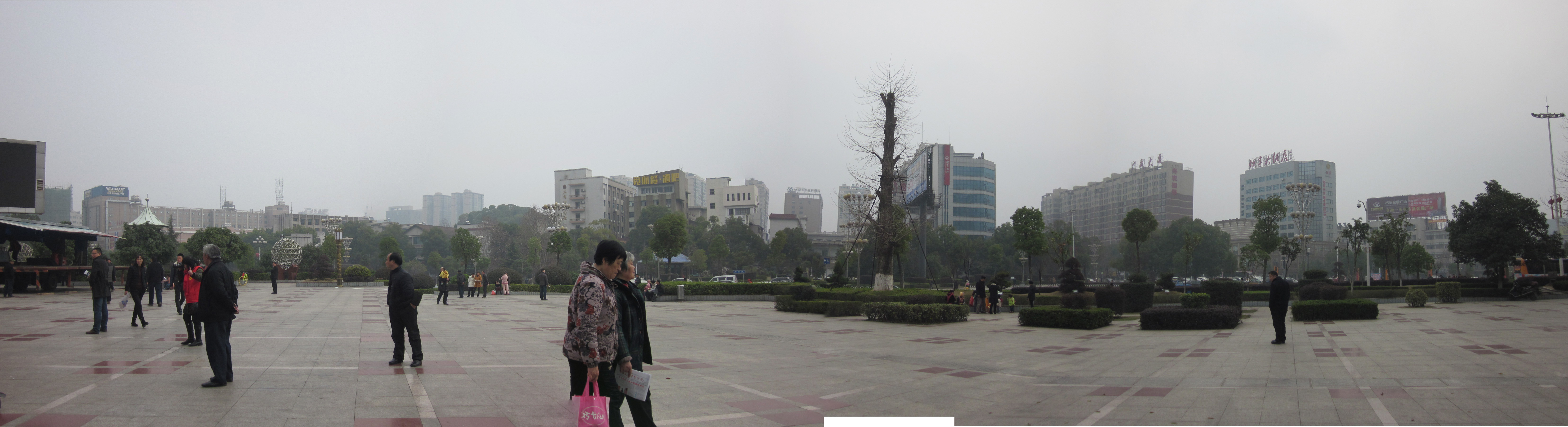 Louxing Square, Loudi city, Hunan province, China.中文（中国大陆）: 娄星广场，位于中华人民共和国湖南省长沙市娄底市。